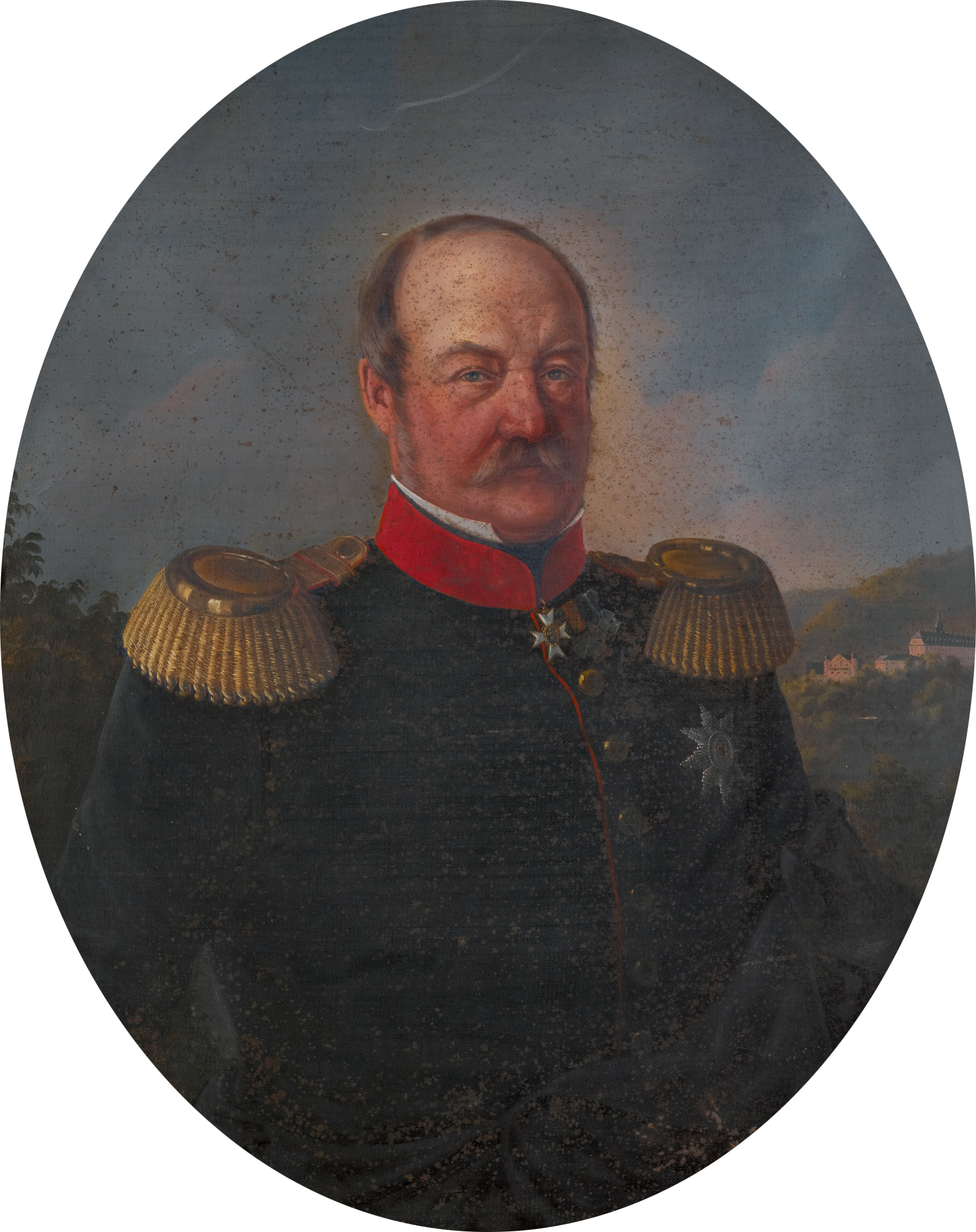 Friedrich Günther Fürst zu Schwarzburg-Rudolstadt (1793-1867) oil on canvas 82 X 68 cm signed verso: R. Schinzel / 1859